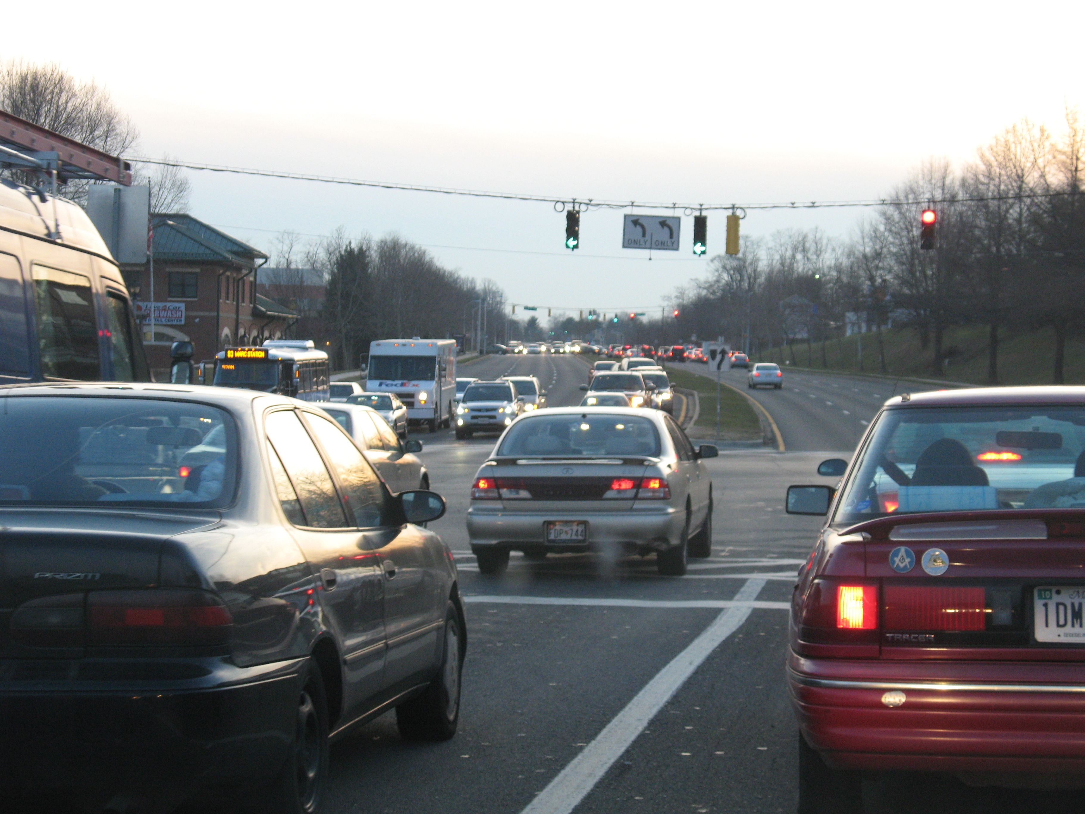 The intersection of Maryland Route 118 at Middlebrook Road in Germantown, Montgomery County, Maryland, Maryland, in January 2008.